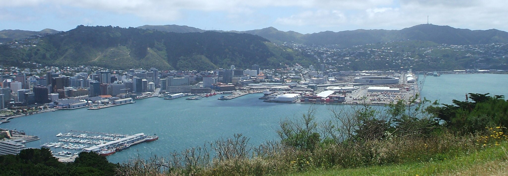 Photo entirely made by me. Please contact for more details. Port Nicholson (the actual name of Wellington Harbor) and the City, to the left is the downtown skyline and the center is the port. To the right is Khandallah and the Caketin (stadium near the port). If you look really really carefully behind a long, grey glassy building on the waterfront (near image center), peeking out from the top is the Beehive (popular name for one of the parliament buildings).